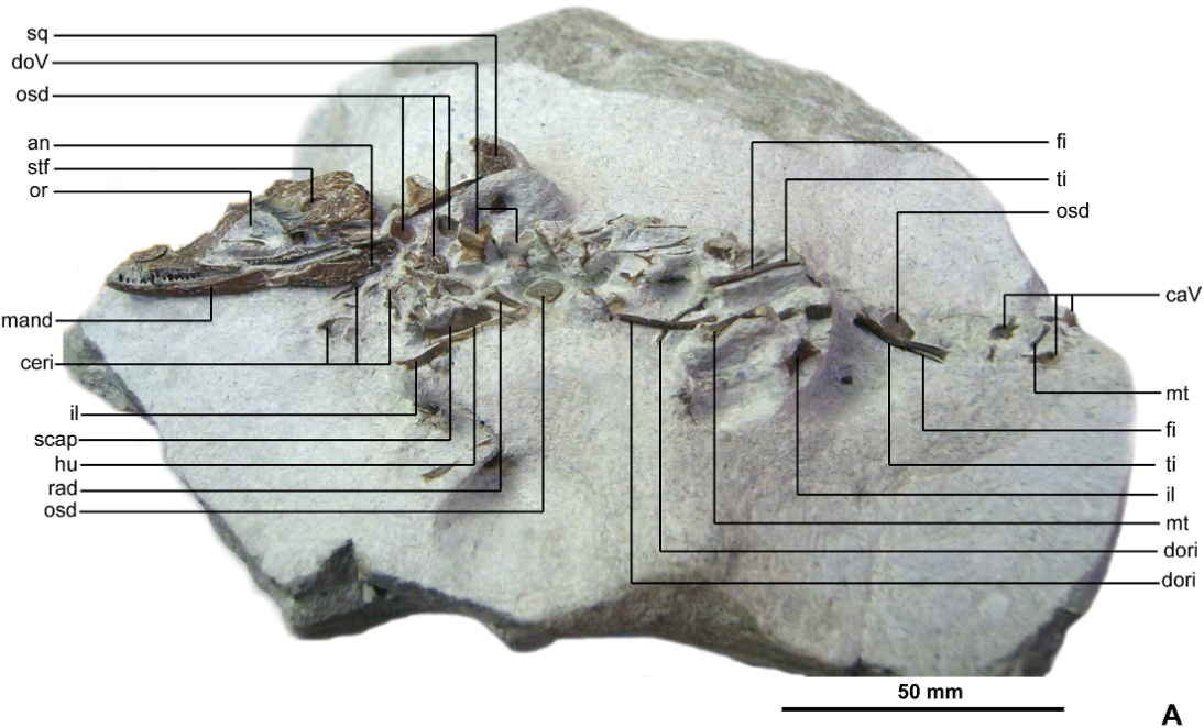 Fig 3. Knoetschkesuchus langenbergensis gen. nov. sp. nov, DFMMh/FV 200, skeleton of larger specimen. (A) Overview photograph of Knoetschkesuchus langenbergensis gen. nov. sp. nov., larger specimen DFMMh/FV 200 in dorsolateral aspect.